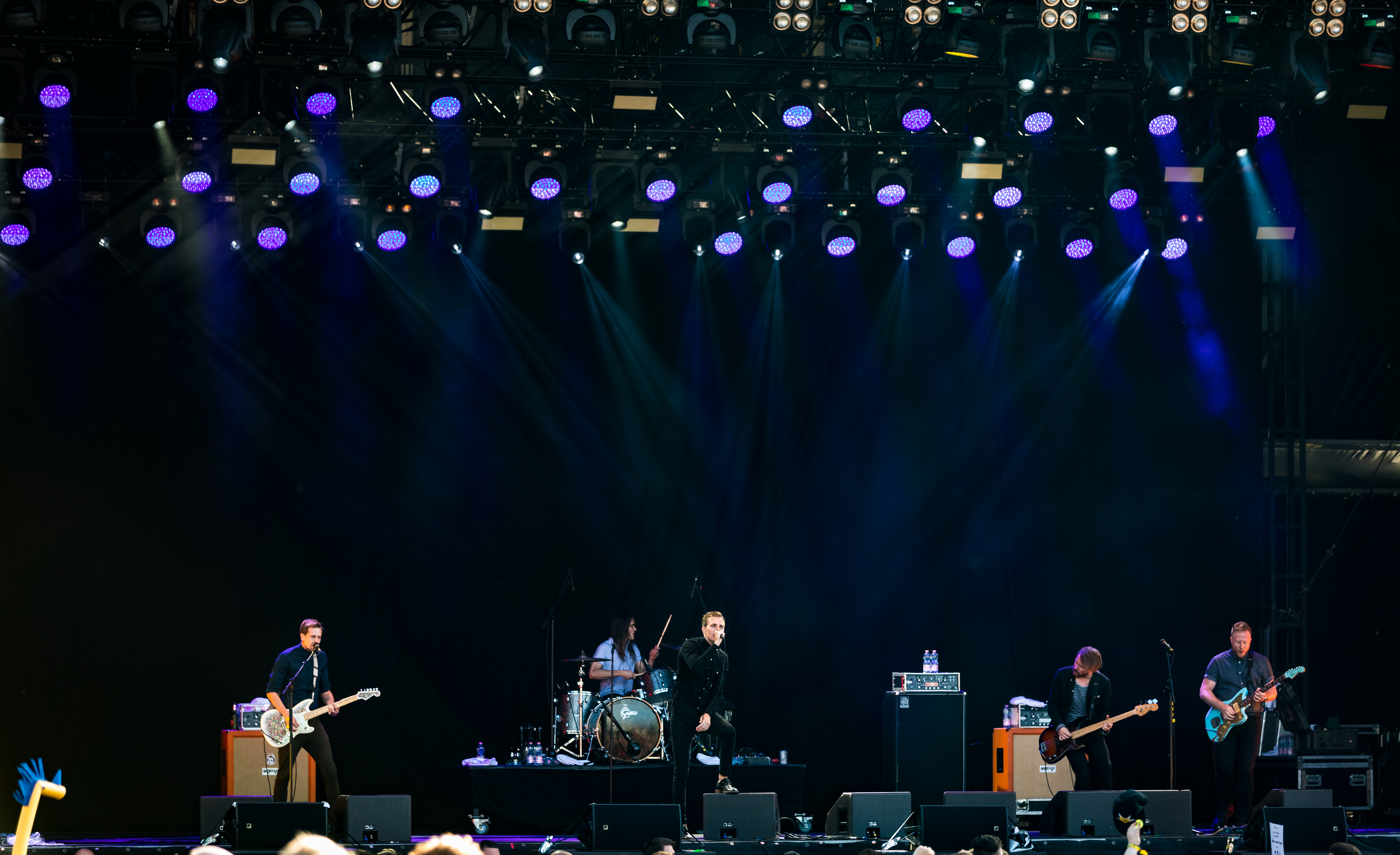 The Maine - Rock am Ring 2018